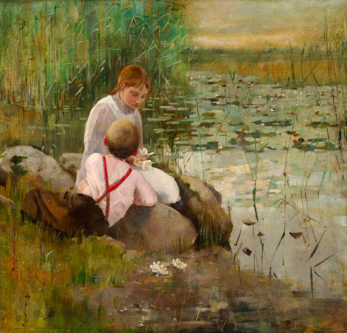 Bertha Newcombe Water Lilies Southwark Art Collection